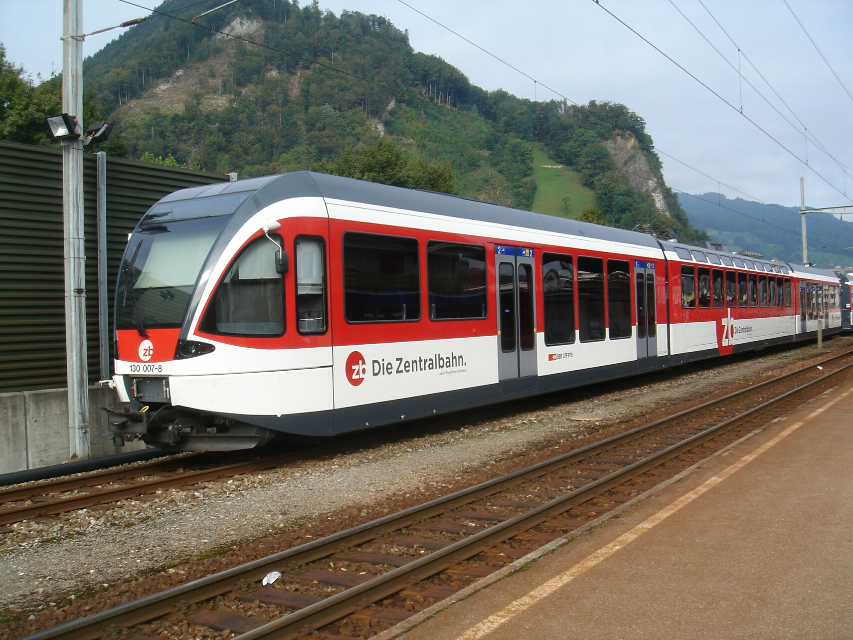 Zentralbahn ABe 130 007 parked in Stansstad station